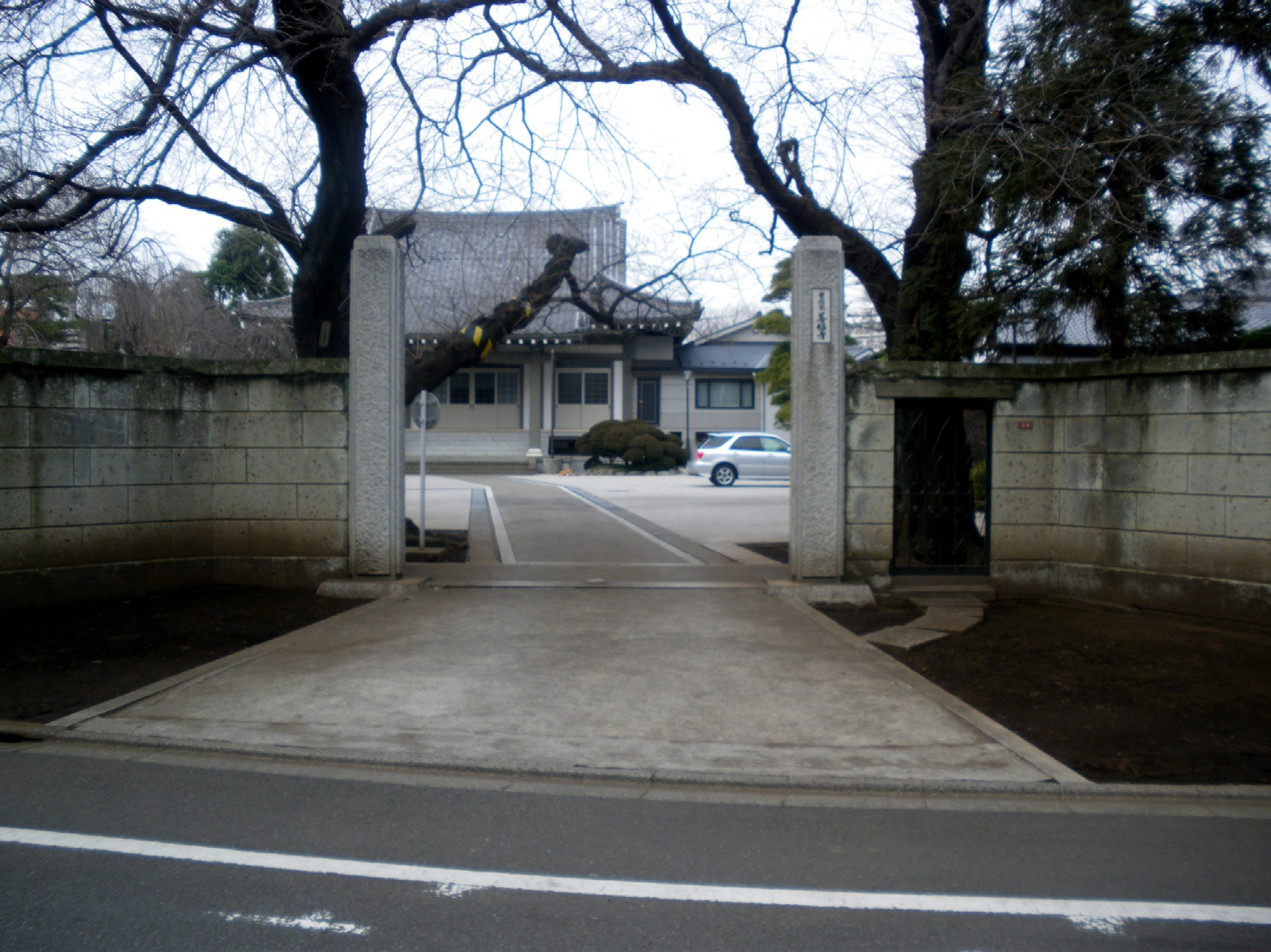 A photo of Zenpukuji temple,Zenpukuji,Suginami-ku,Tokyo,Japan.